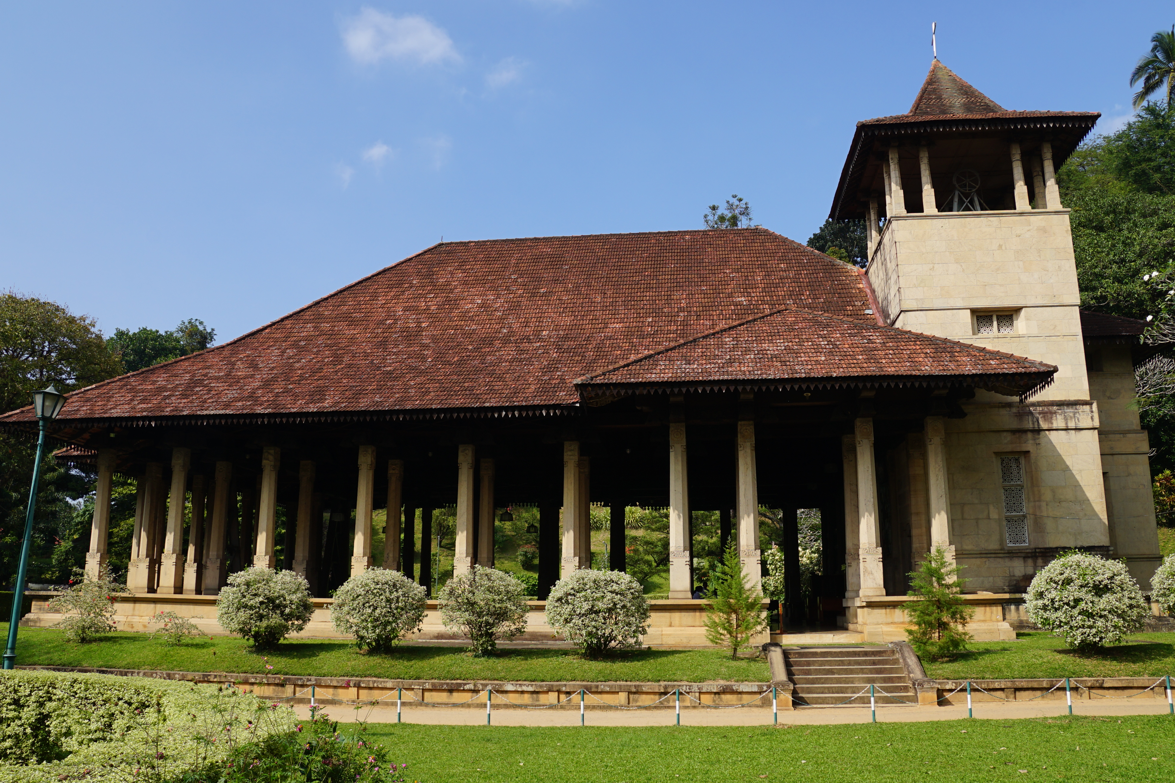 The exterior of Trinity College Chapel, Kandy